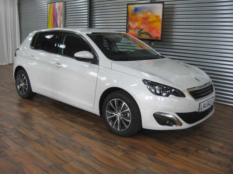 Peugeot 308 Allure e-HDi 116 5-doors